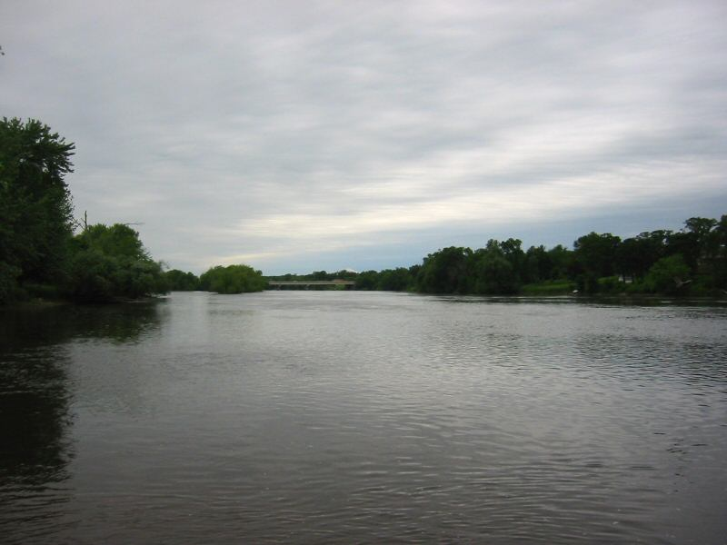 The Mississippi River as it passes through Monticello, Minnesota.